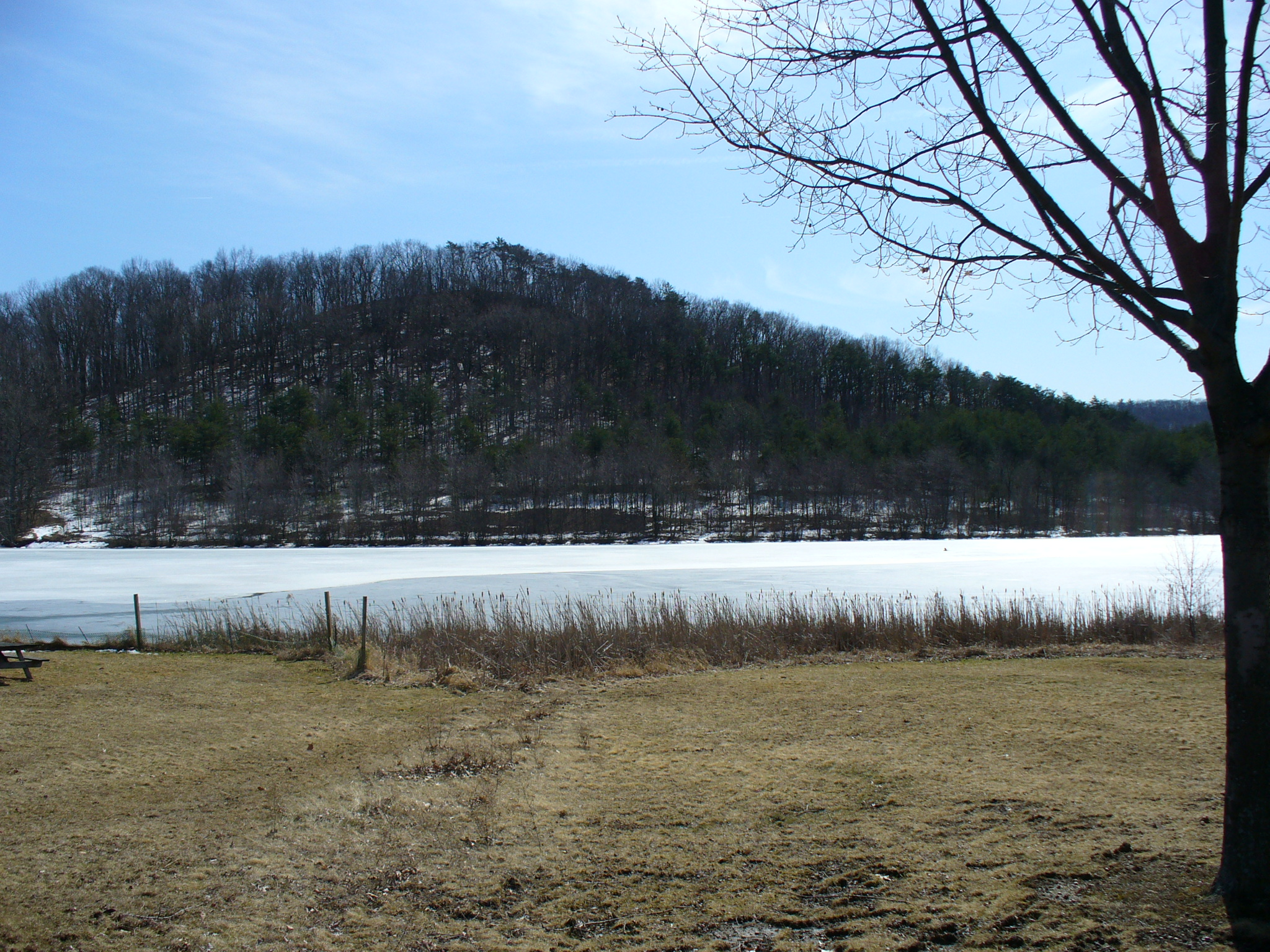 Canoe Creek 03/07 picture (taken by me)